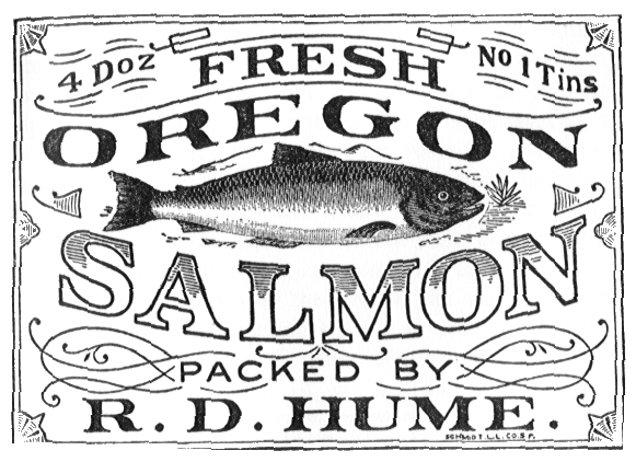 One of the salmon-can labels used by Robert Deniston Hume of Wedderburn in the U.S. state of Oregon. Hume operated salmon canneries and hatcheries on the lower Rogue River between 1877 and 1908.